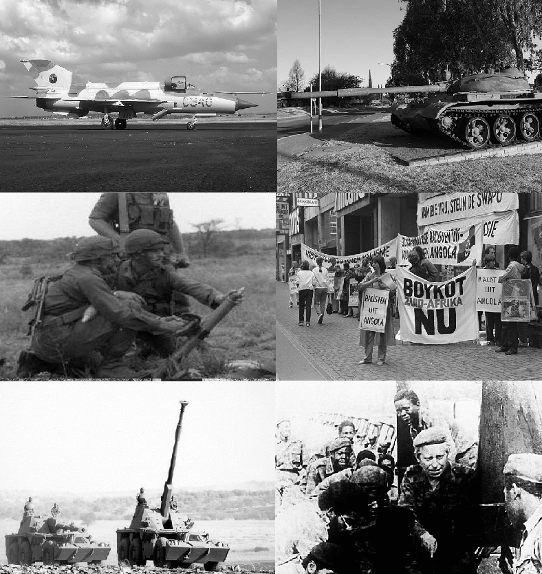 Description & Sources First Row from Left to Right: - Angolan Air Force Mikoyan MiG-21bis; - Decommissioned T-54B/T-55 tank of the Angolan or Cuban armies, captured by the South African Defence Force (SADF) 2nd Row, L to R: - South African troops preparing to fire a 60mm mortar in Angola; - Pro-Angolan demonstration in Amsterdam against overt South African military aggression Last Row, L to R: - Demonstration of the self-propelled G6 howitzer for the SADF; - Unidentified Eastern European (most likely) Soviet military advisor in Angola, serving with the Armed Forces for the Liberation of Angola (FAPLA)